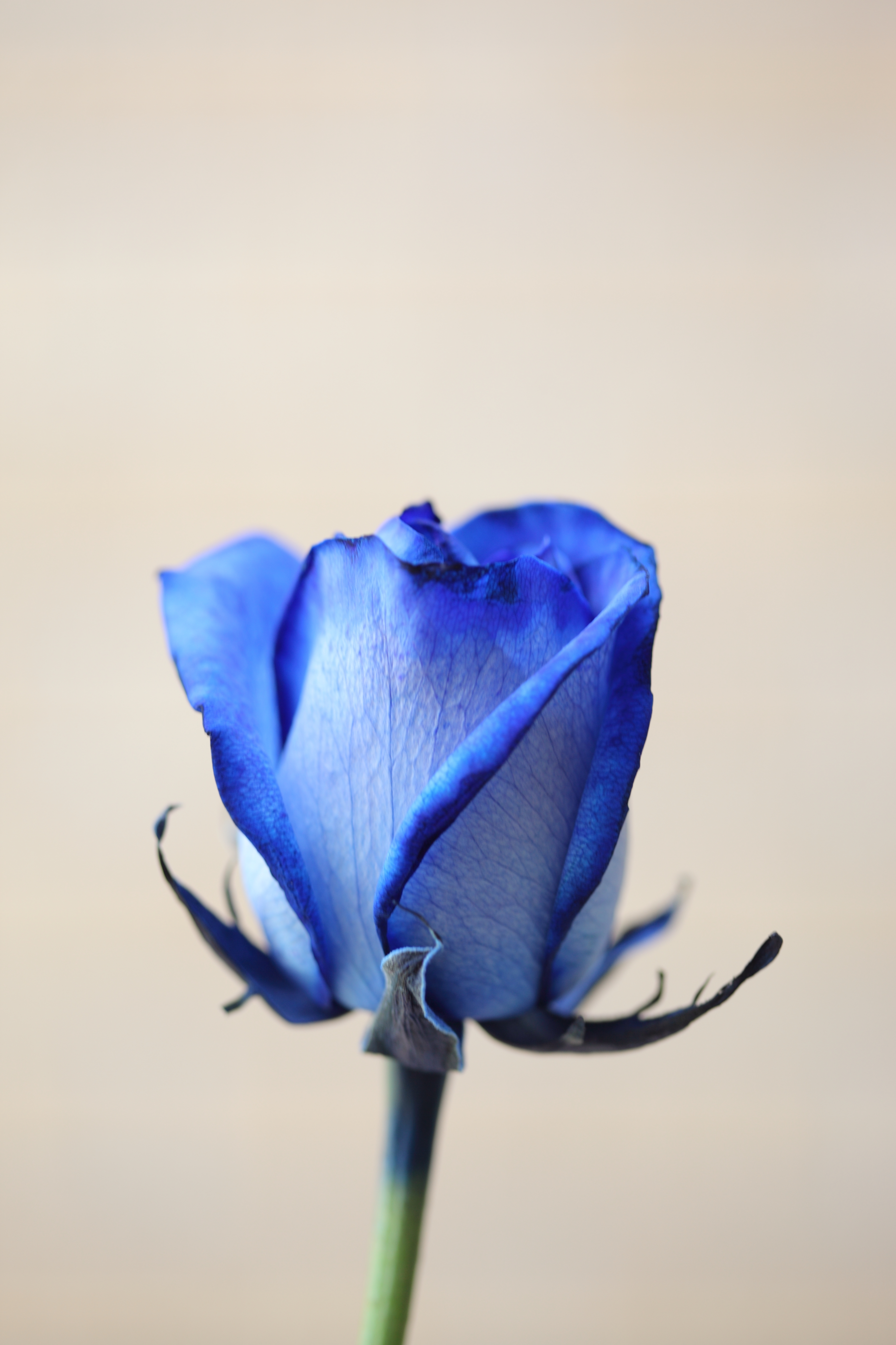 My photos that have a creative commons license and are free for everyone to download, edit, alter and use as long as you give me, "D Sharon Pruitt" credit as the original owner of the photo. Have fun and enjoy!